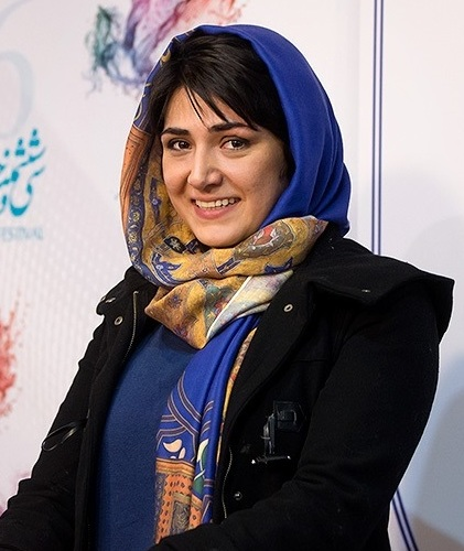 Baran Kosari, Cold Sweat movie press conference, 36th Fajr Film Festival (13961118000094636535662031243052 14517)